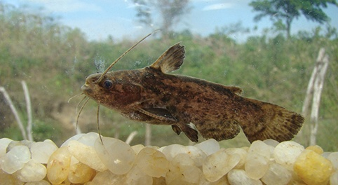 Trachelyopterus galeatus